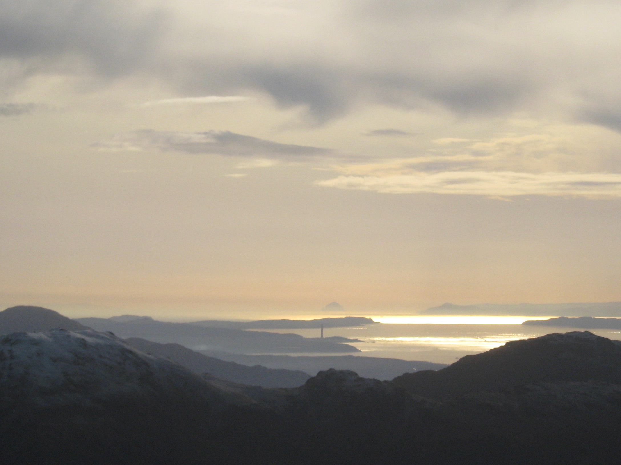 view looking south from Ben Vorlich (Loch Lomond), with Inverkip power station visible in the centre, in front of Ailsa Craig, cropped and levels adjusted